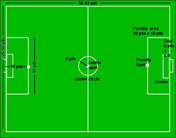 diagram of 7-aside soccer pitch